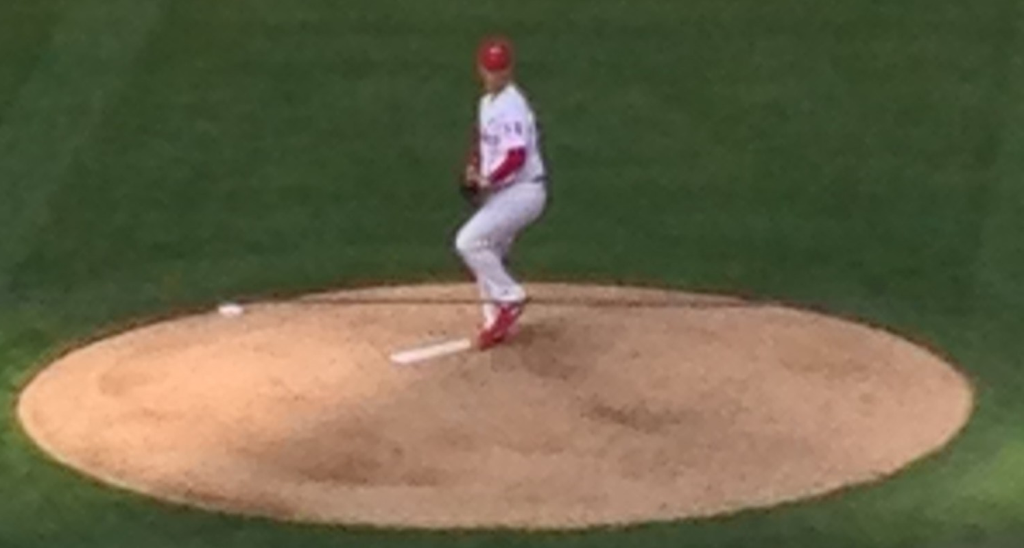 Kyle Kendrick pitching vs the Brewers on 8 April 2014.